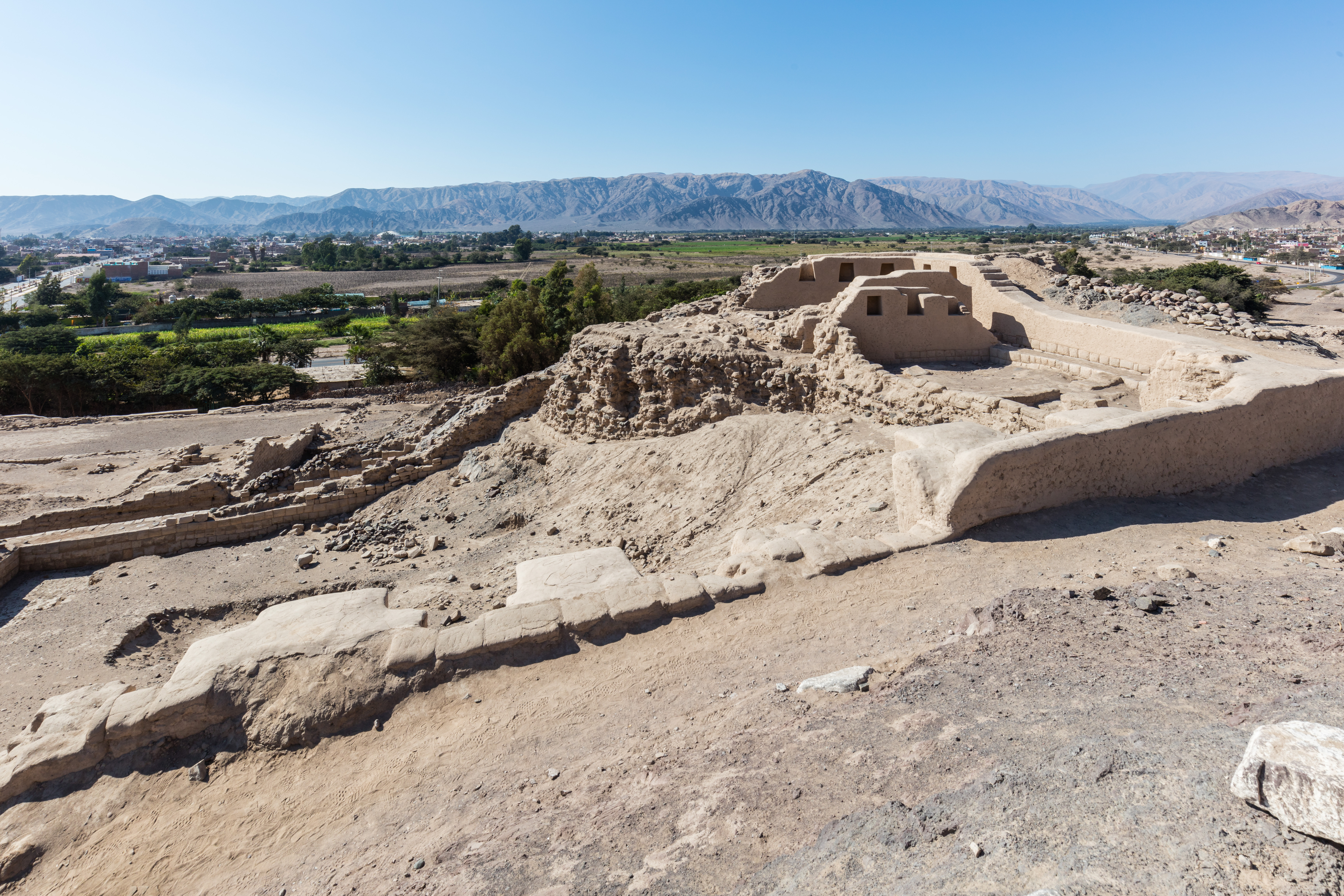 Los Paredones, Nazca, Peru